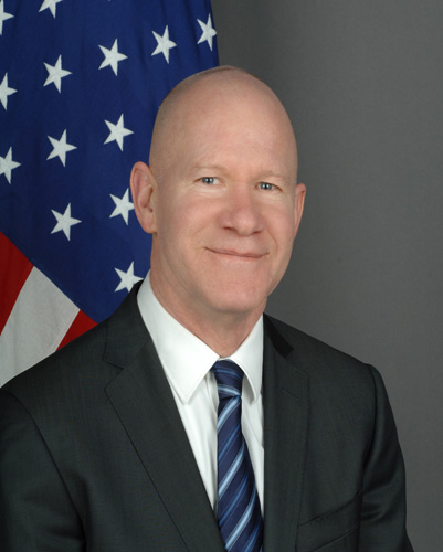 Robert E. Patterson, Jr., U.S. diplomat. As of 2011, U.S. ambassador to Turkmenistan.